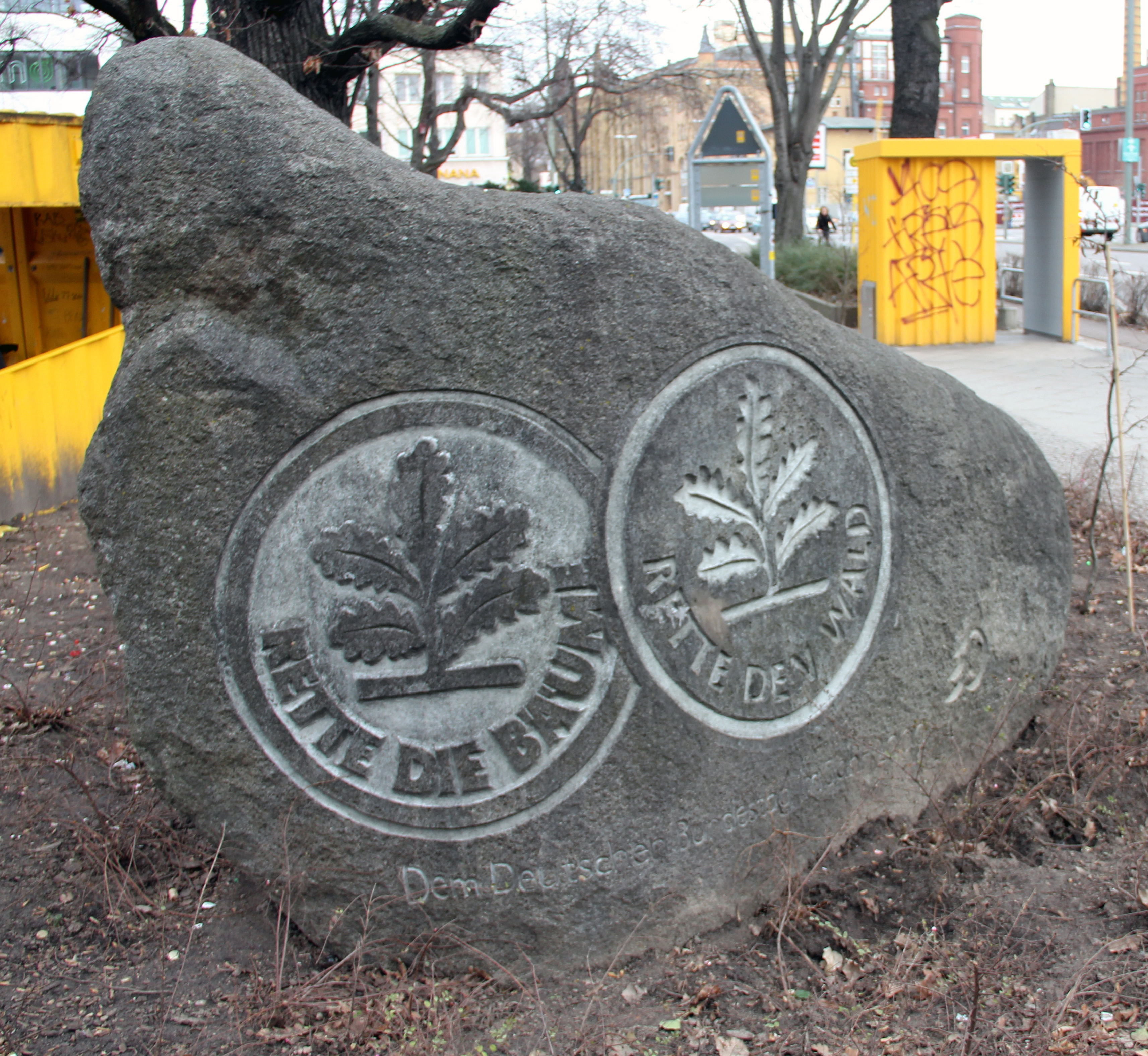 Memorial stone, Baum des Jahres, Kleiner Tiergarten, Berlin-Moabit, Germany